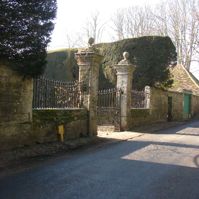 Gates of Garsington Manor Each summer there is a month of opera here - see Garsington Opera website .